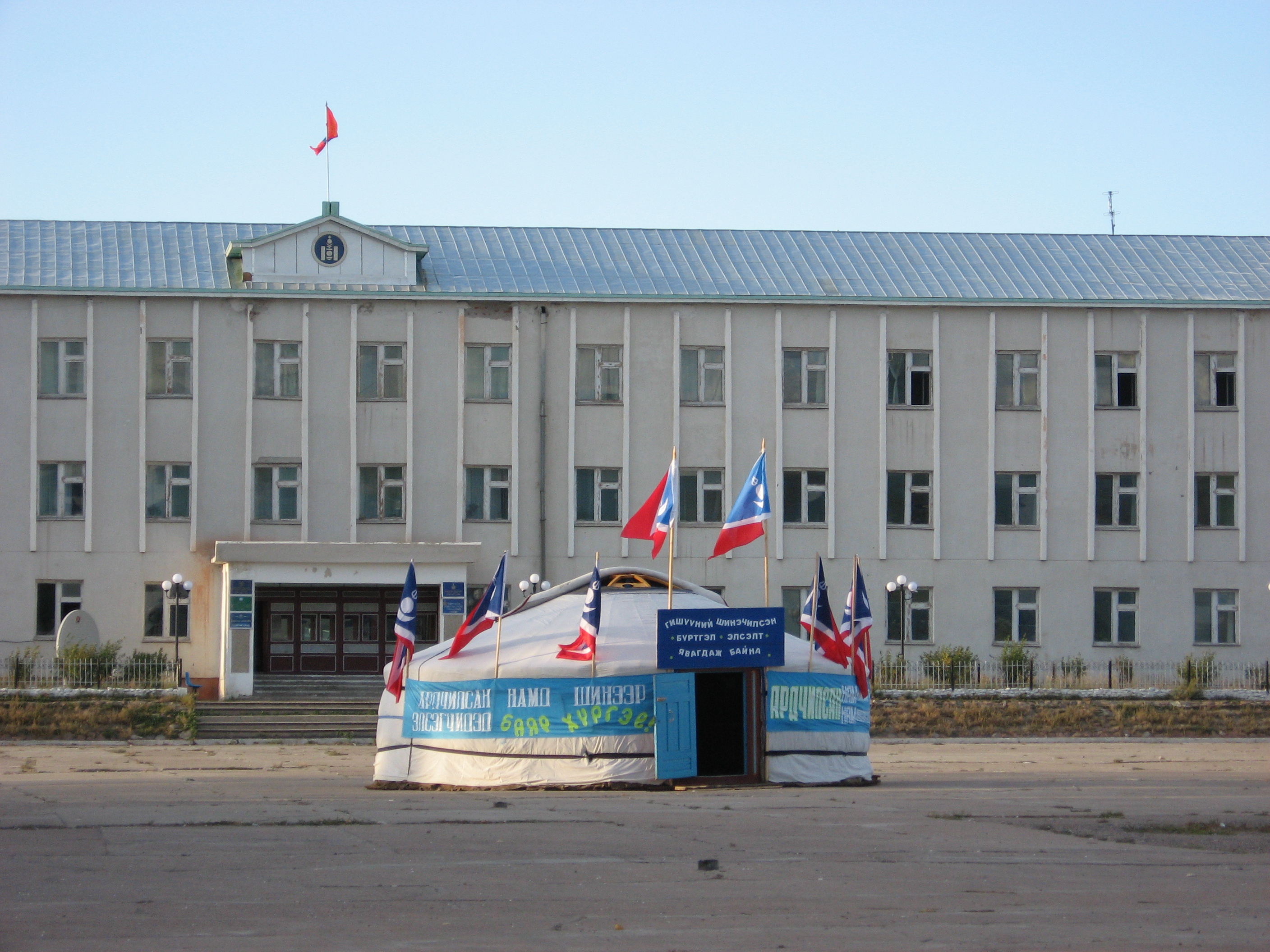 Ger set up by the Mongolian Democratic Party (Ardchilsan Nam) for their 2006 by-election campaign in one electorate in Khövsgöl. The ger was set up on Davaadorjiin talbai in Mörön. The building in the background is the aimag's administration north of the square